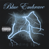 Bleeding Blue" 2009